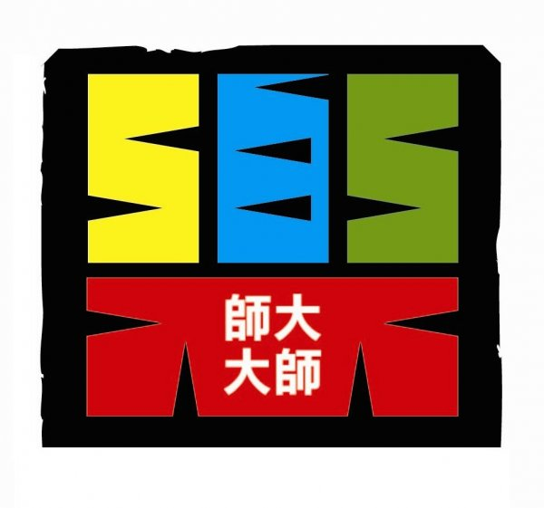 school logo